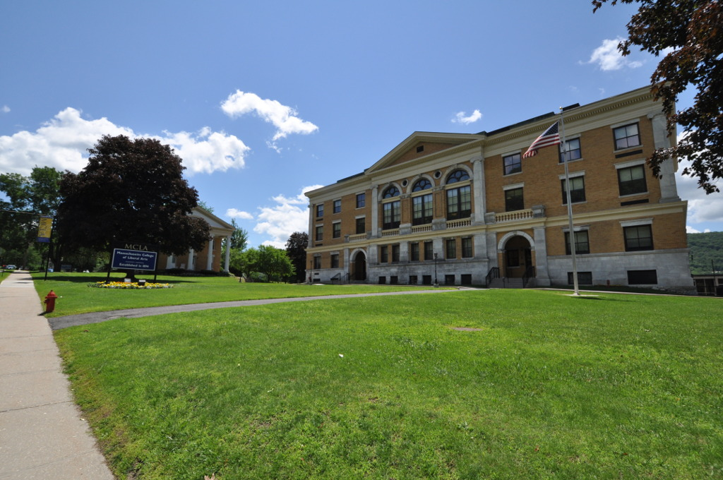 Murdock Hall and Smith House, on the campus of the Massachusetts College of Liberal Arts, and part of the Normal School Historic District, North Adams, Massachusetts.